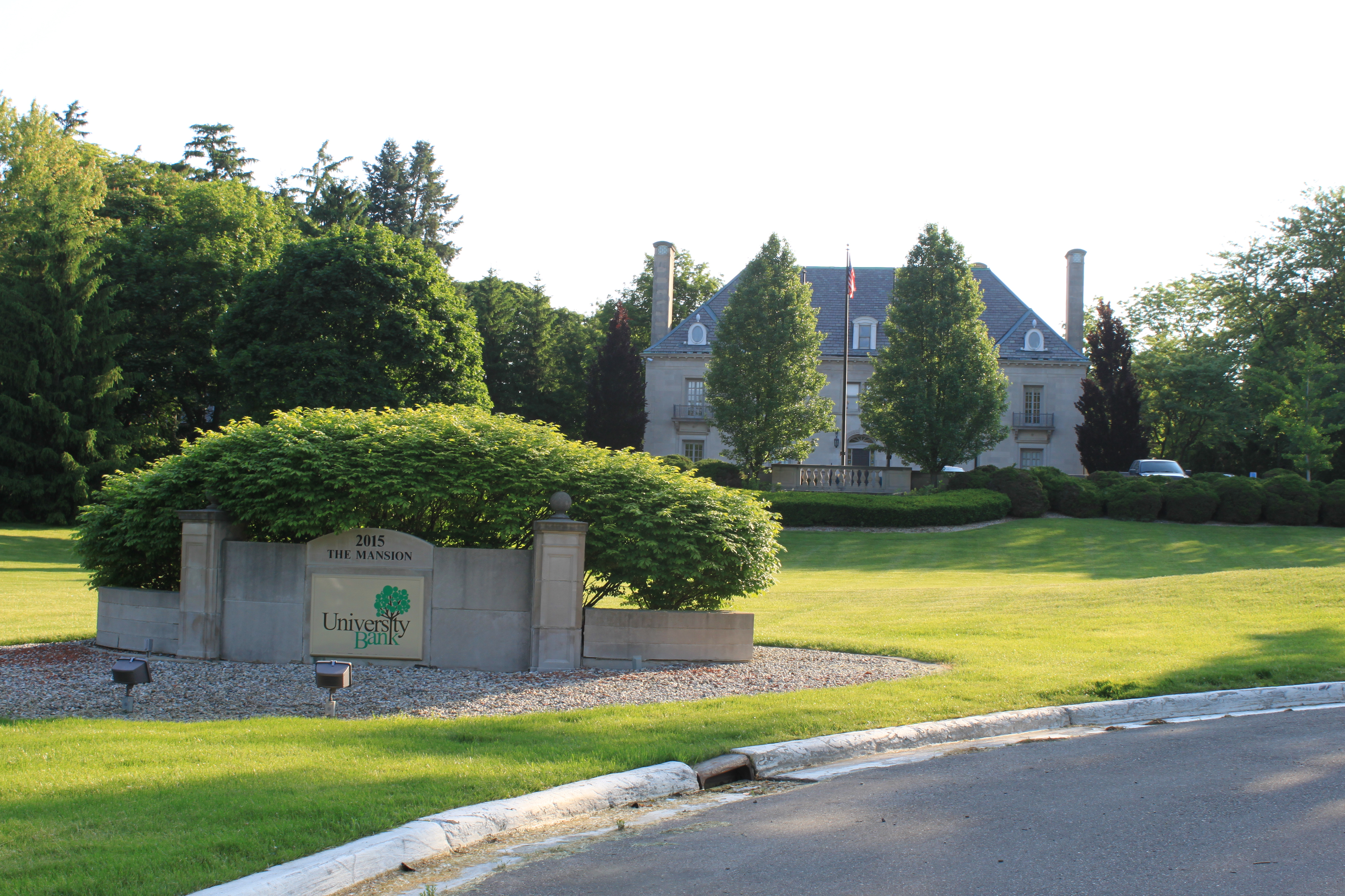 University Bank, 2015 Washtenaw Ave., Ann Arbor, Michigan 48105